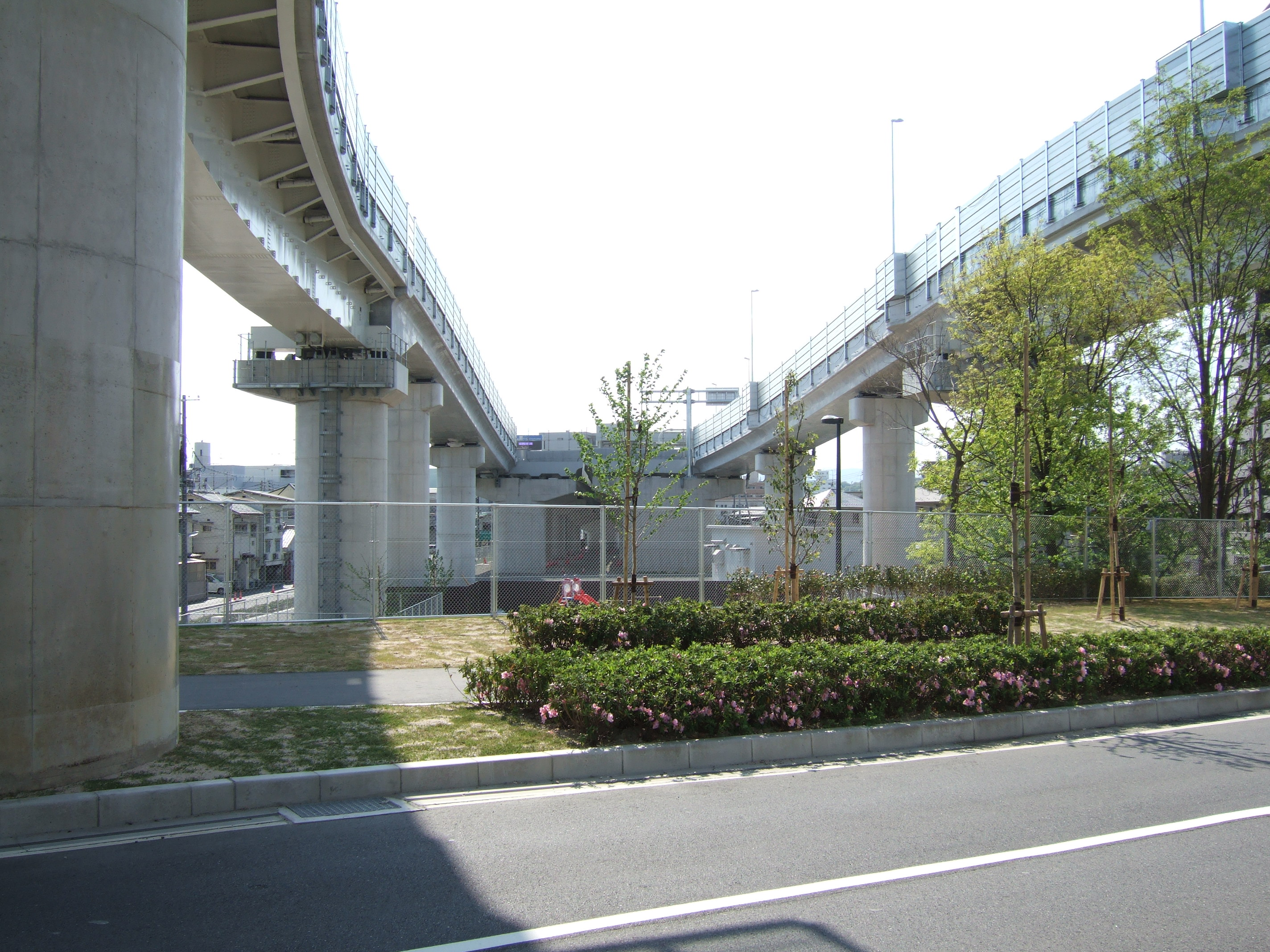 Ramp of Shinonome Interchange(Hiroshima Expressway 2)